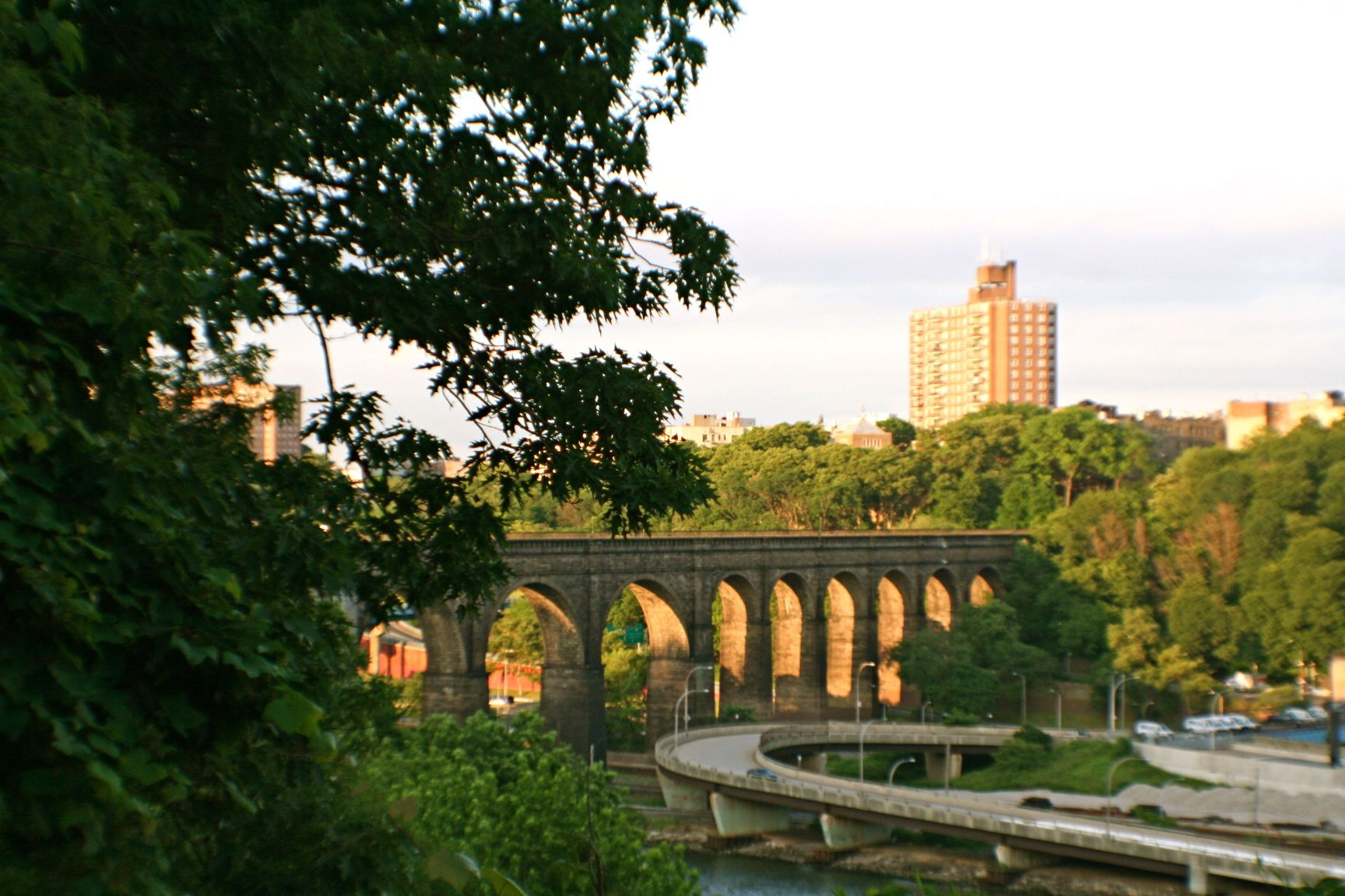 The older section of the High Bridge across the Harlem River looking over from Manhattan to the Bronx.